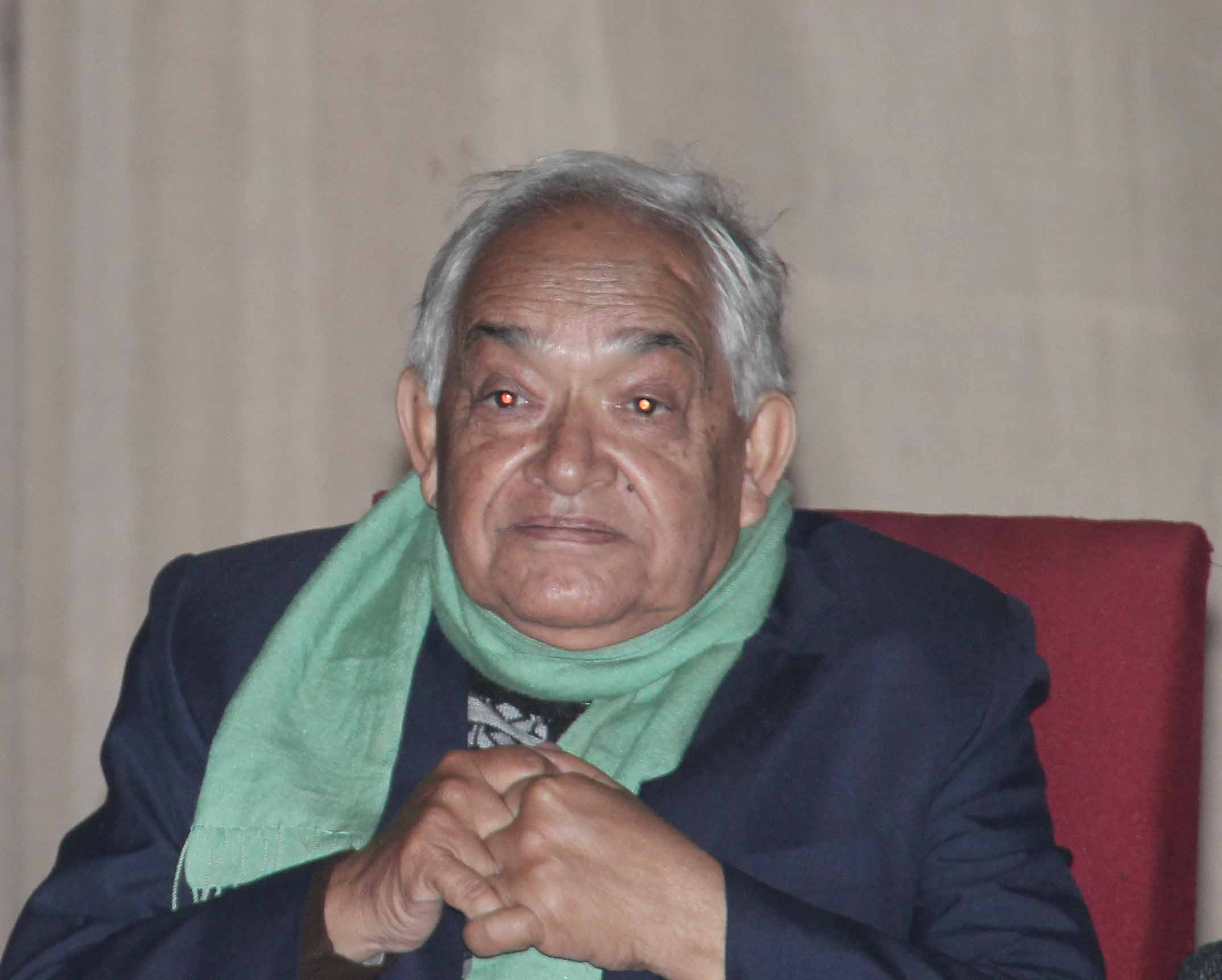 Literary critique and writer of Nepal.